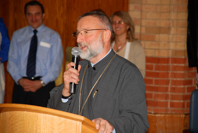 Photo of Protopresbyter-Stavrophor Vasilije Tomić.